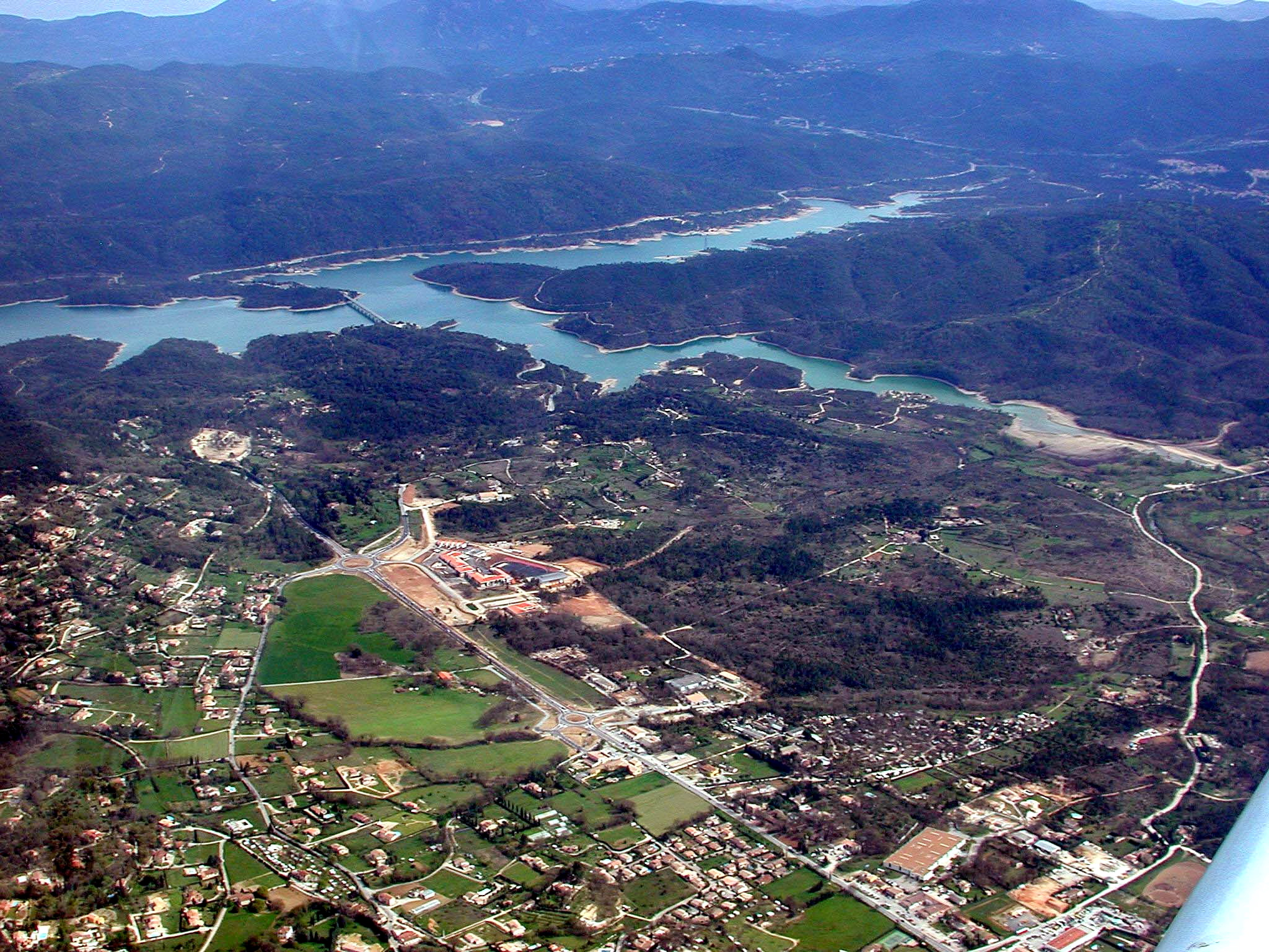 Saint-Cassien's lake in Montauroux, Var